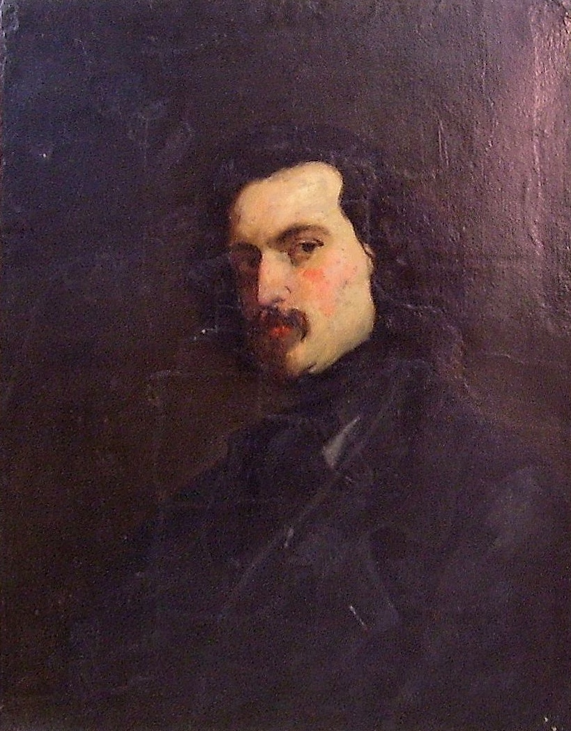 Portrait of Lottin de Laval